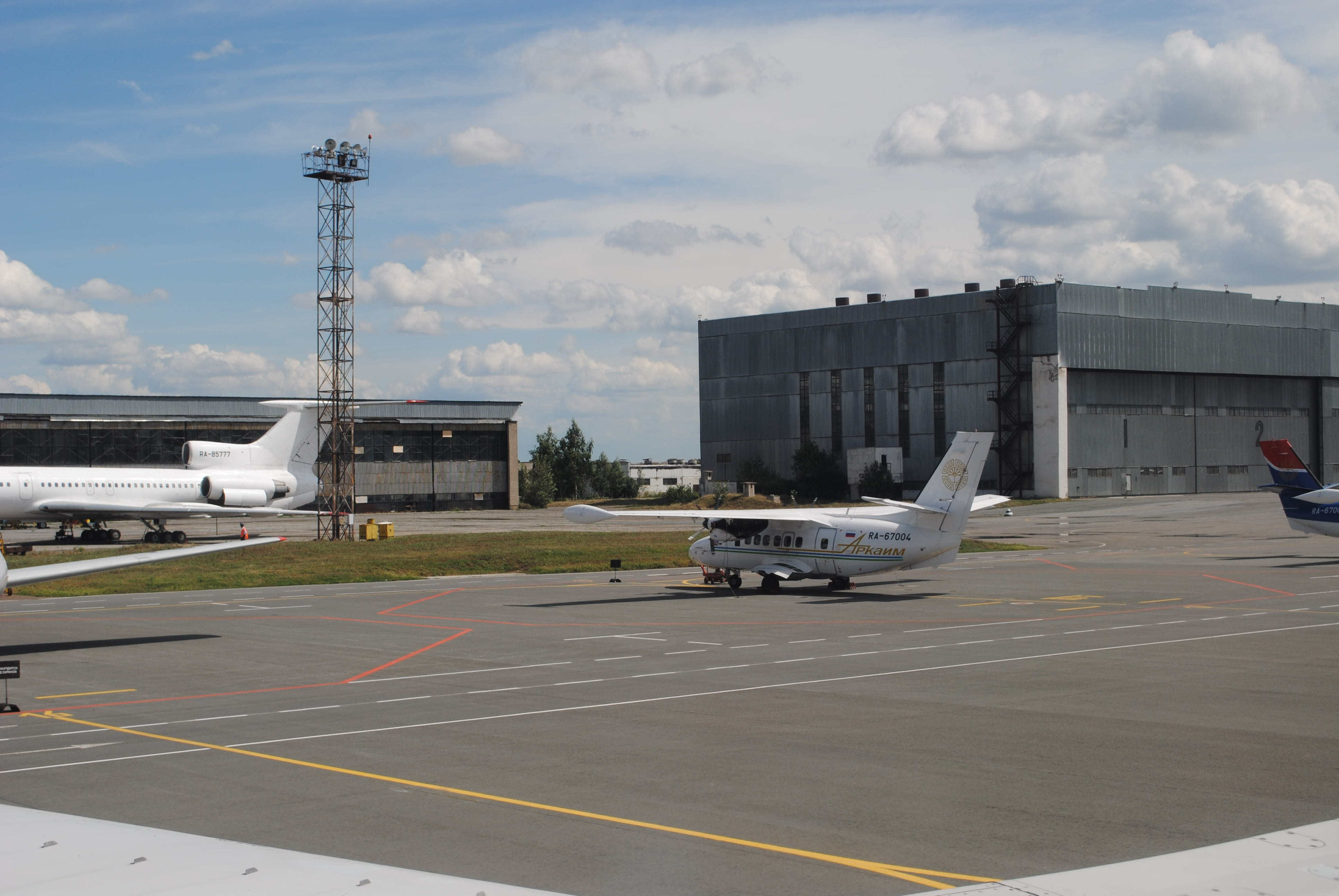 Plane of Arkaim airline